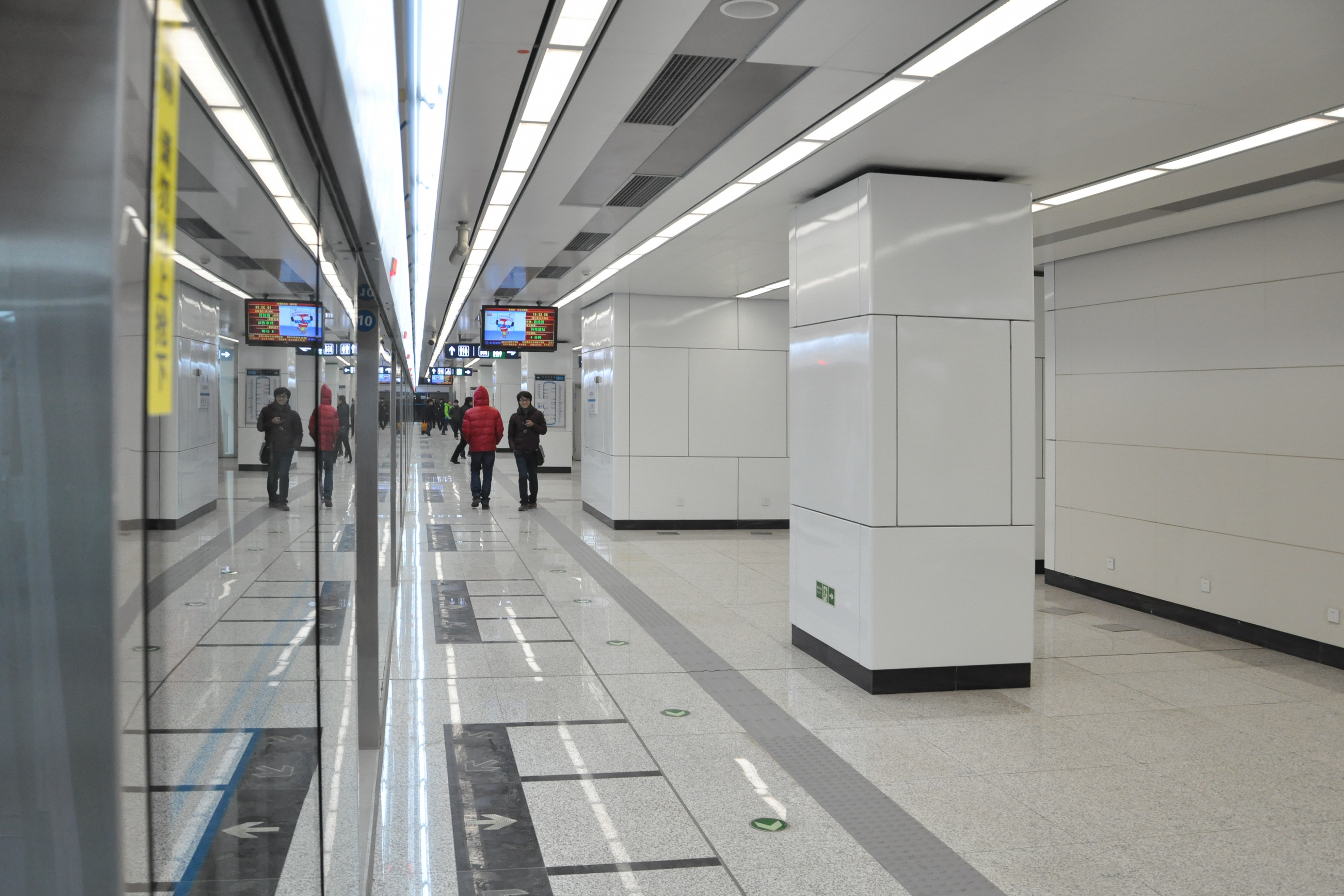 Platform of Caoqiao station, Line 10, Beijing Subway